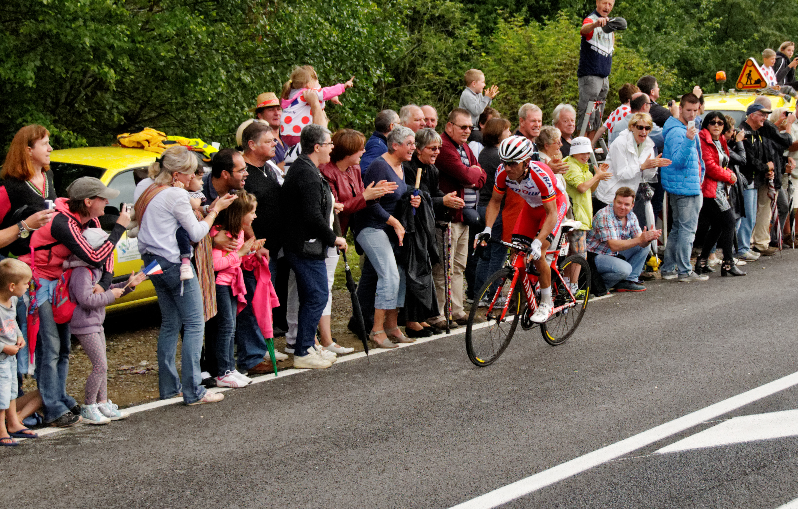 Personality rights warningAlthough this work is freely licensed or in the public domain, the person(s) shown may have rights that legally restrict certain re-uses unless those depicted consent to such uses. In these cases, a model release or other evidence of consent could protect you from infringement claims.